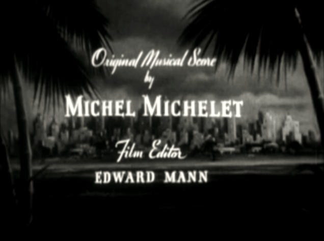 Opening credits for The Chase - cropped screenshot